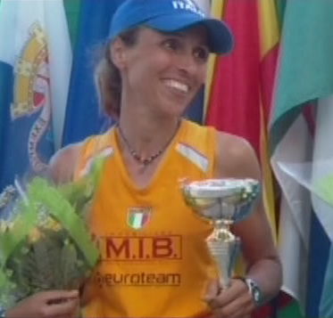 Carmen Fiano Ultrarunner